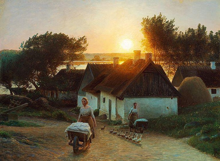 Painting from Sørup near Fredensborg, Denmark